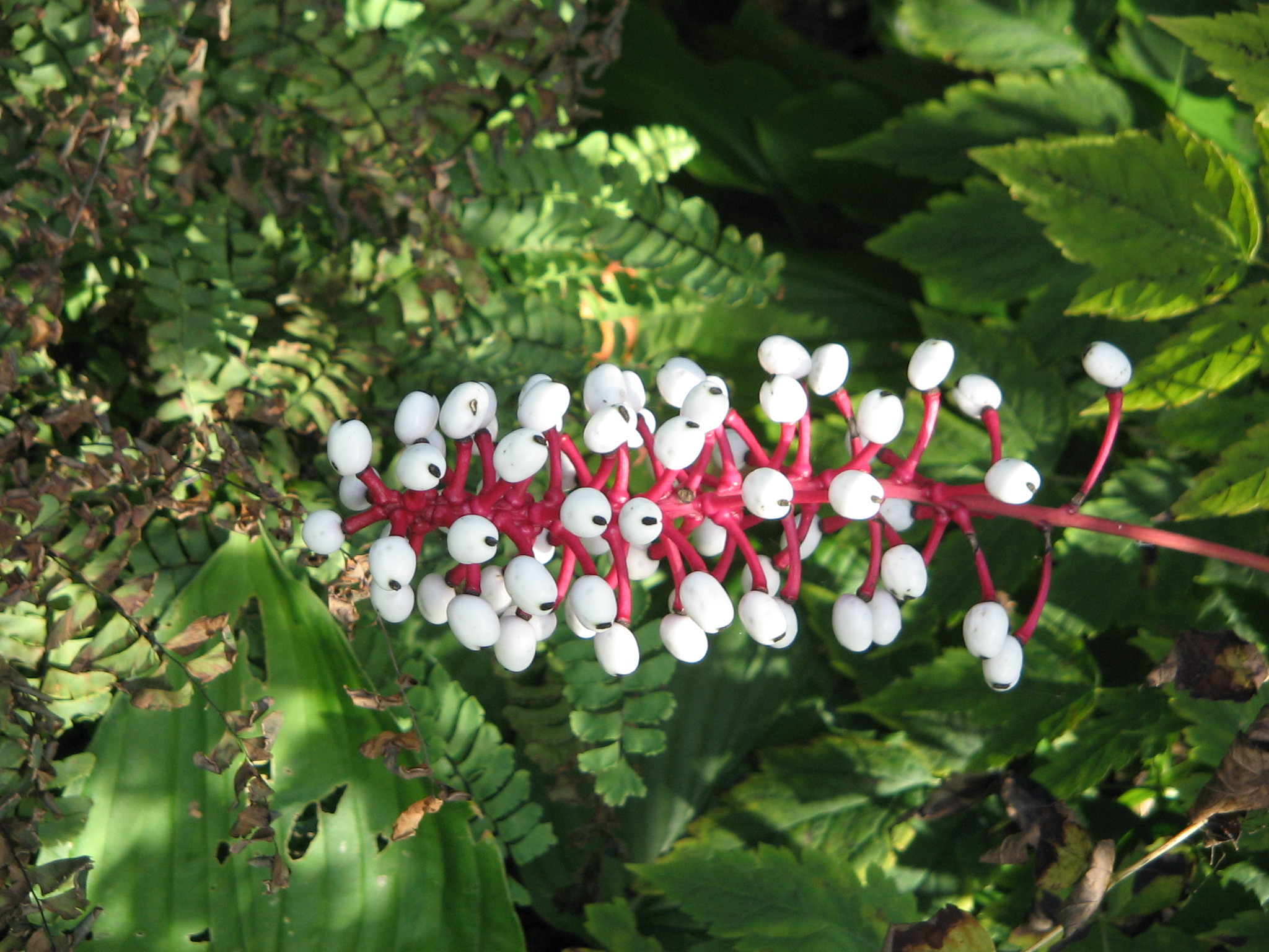 Actaea pachypoda fruits